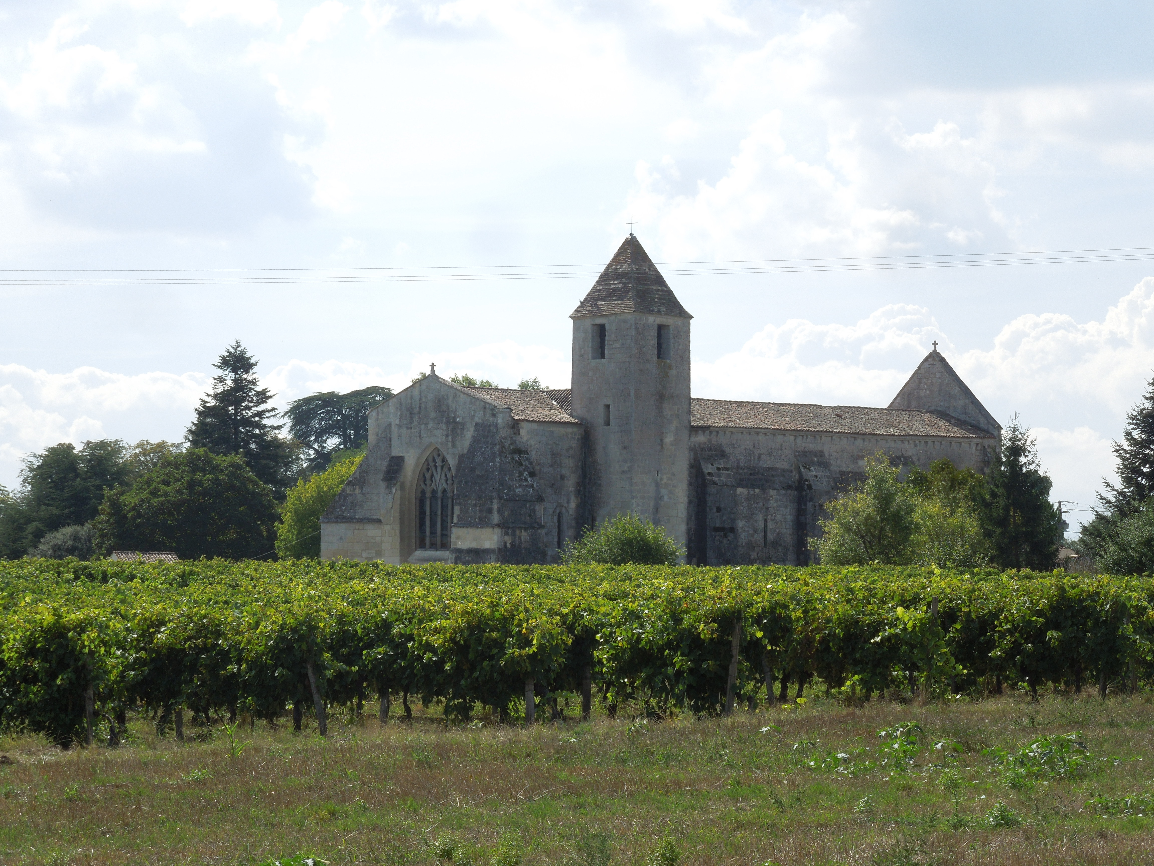 Église Saint-Eutrope